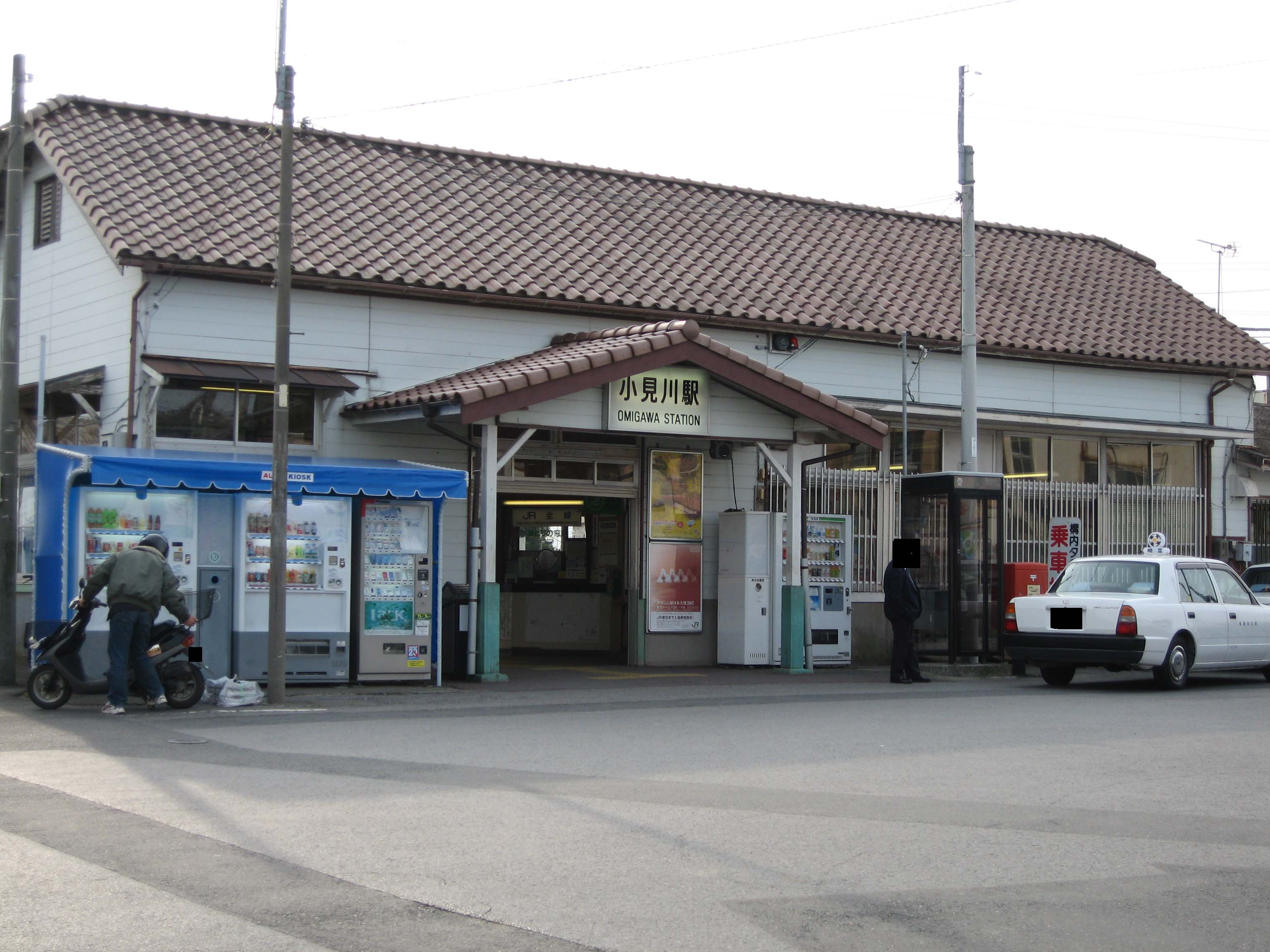 Omigawa Station, Narita Line, Chiba, Japan